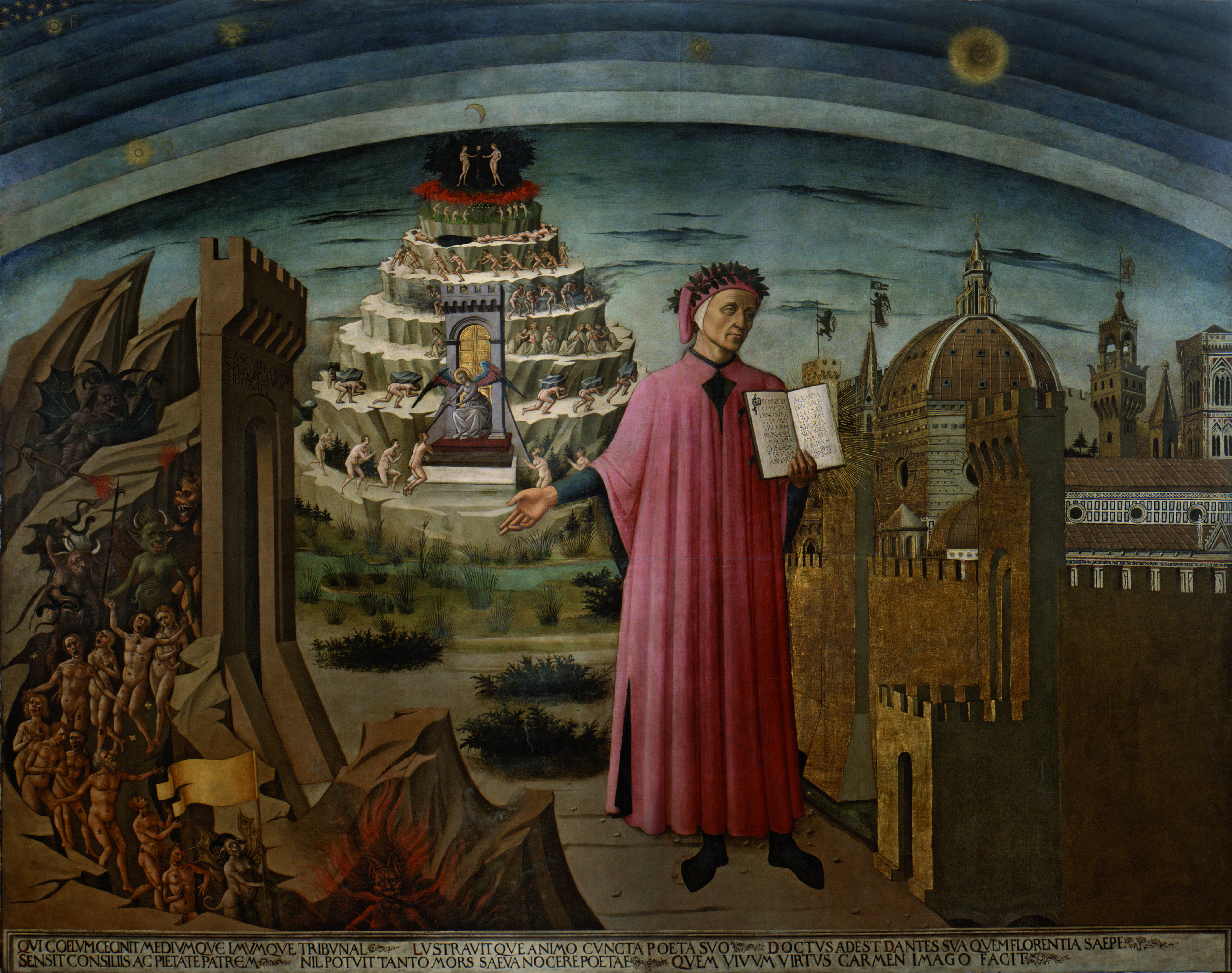 Domenico di Michelino, La Divina Commedia di Dante (Dante and the Divine Comedy). 1465 fresco, in the dome of the church of Santa Maria del Fiore in Florence (Florence's cathedral). Dante Alighieri is shown holding a copy of his epic poem The Divine Comedy. He is pointing to a procession of sin.